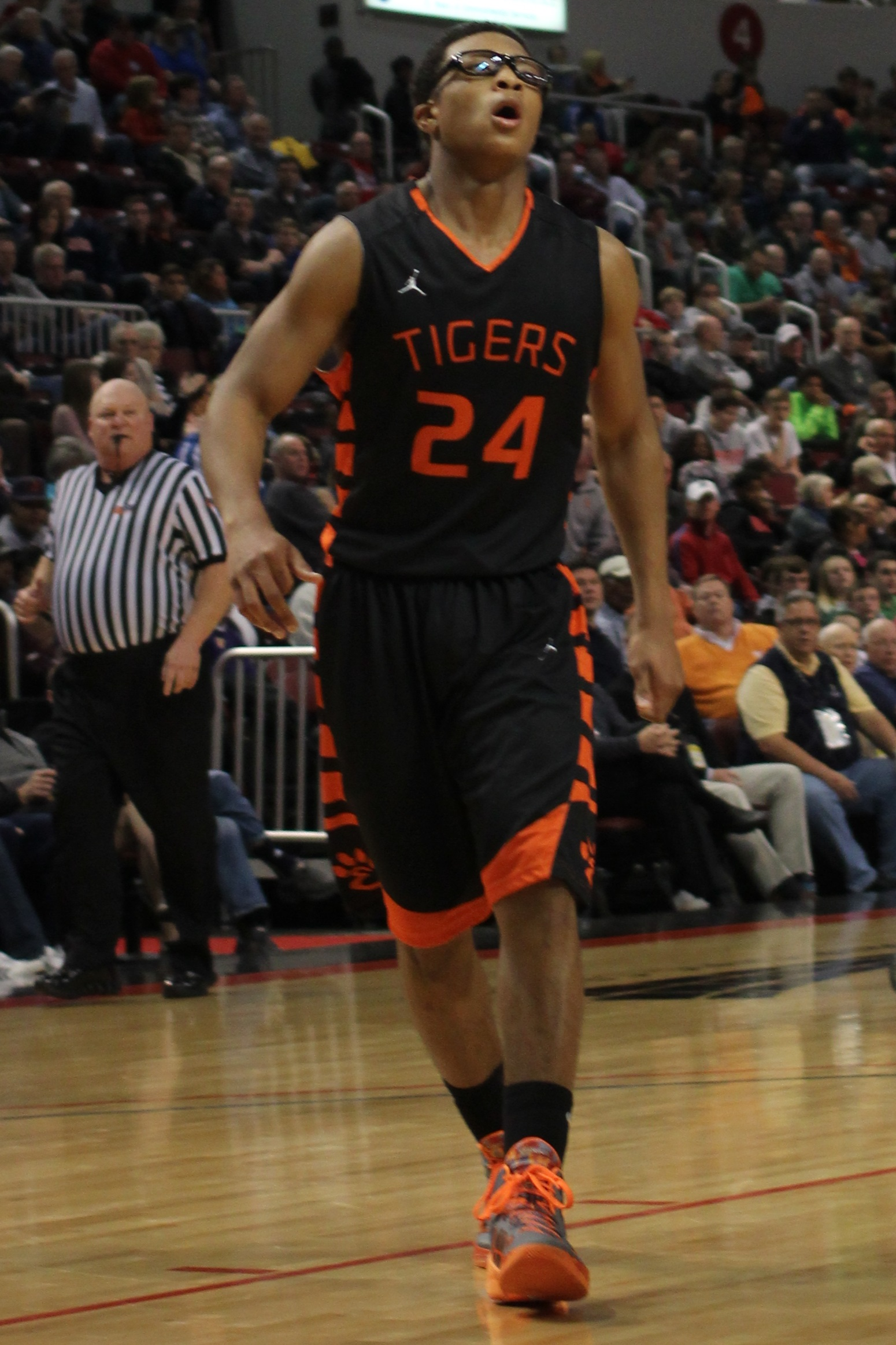 Shawn Roundtree in the 2014 Class 4A Illinois High School Association consolation game